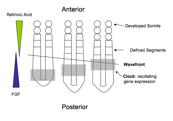 Diagram of zebrafish somitogenesis, created by Emily Ho, adapted from Dequéant and Pourquié, 2008.